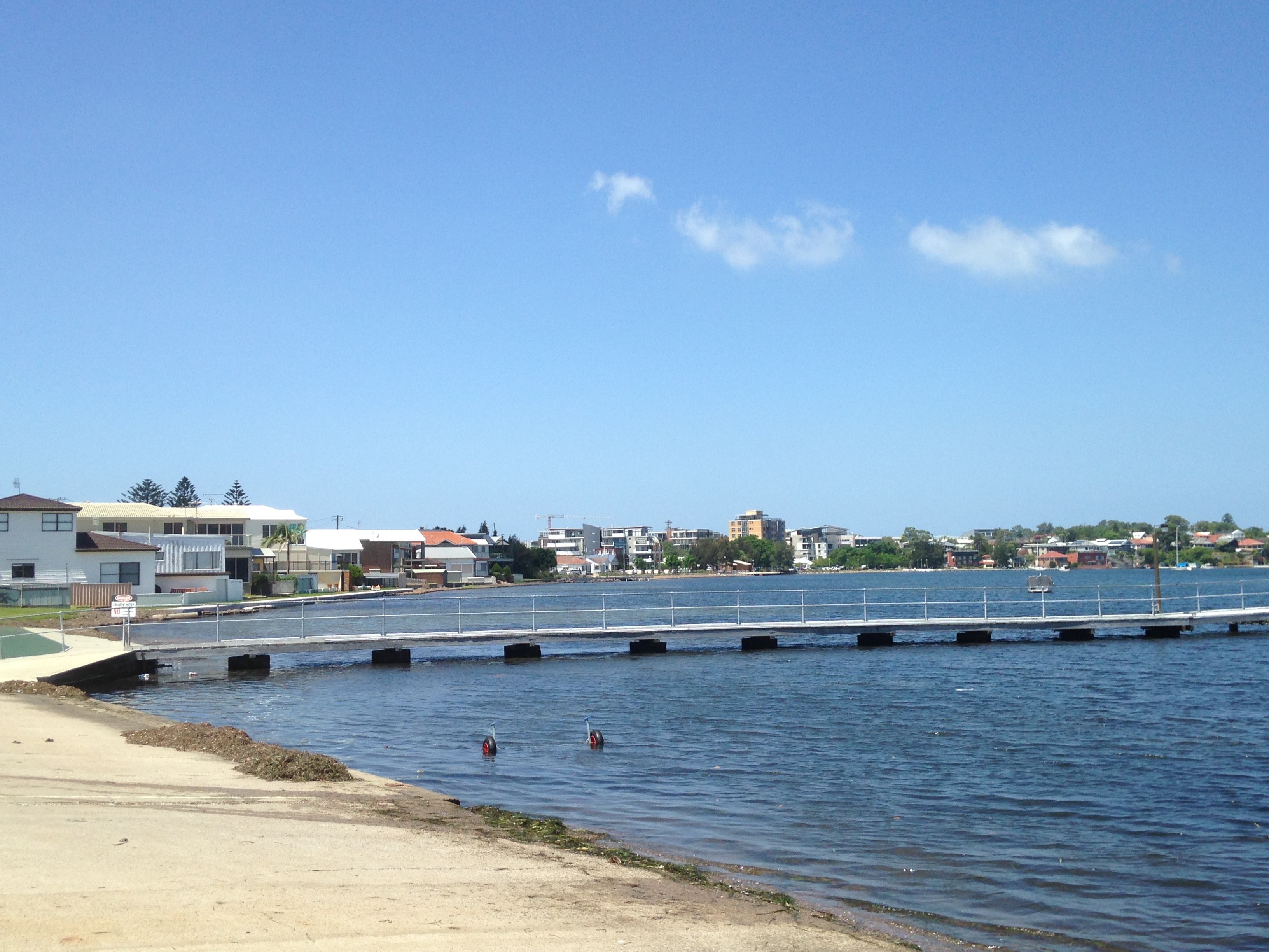 Belmont (New South Wales) from the Belmont 16ft Sailing Club